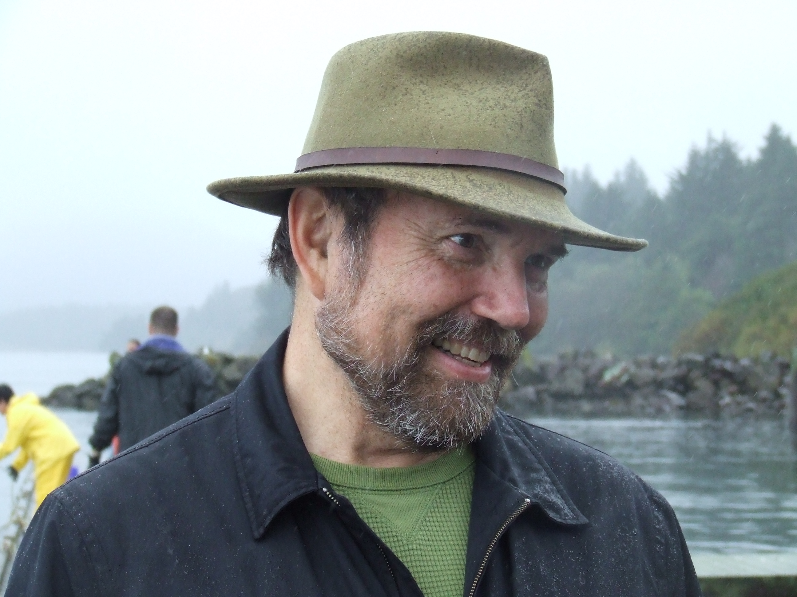 Science writer Thomas Hager at the Oregon coast, 2008